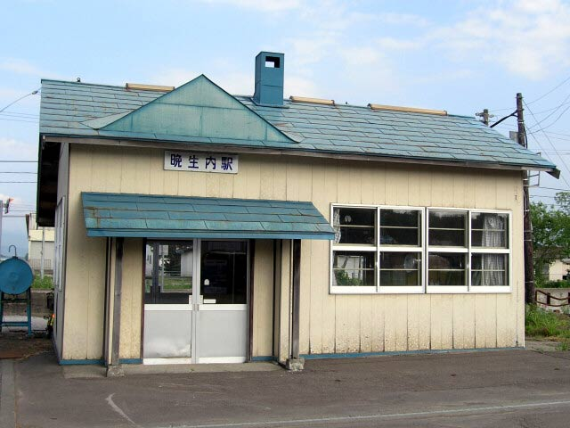 Urausu Station in Sasshou Line, Japan